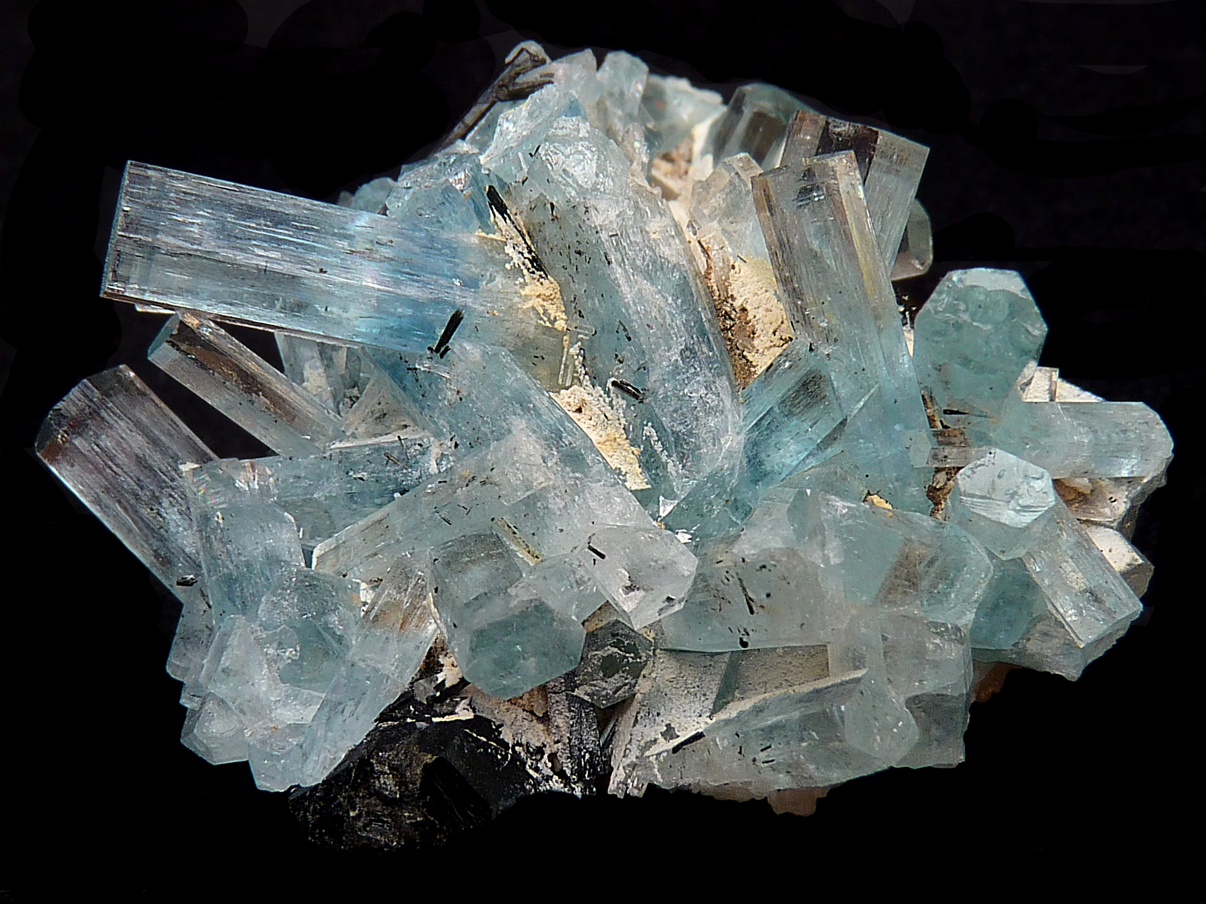 Aquamarine with tourmaline on orthoclase. Origin: Hohenstein, Erongo Mountains, Karibib District, Namibia.